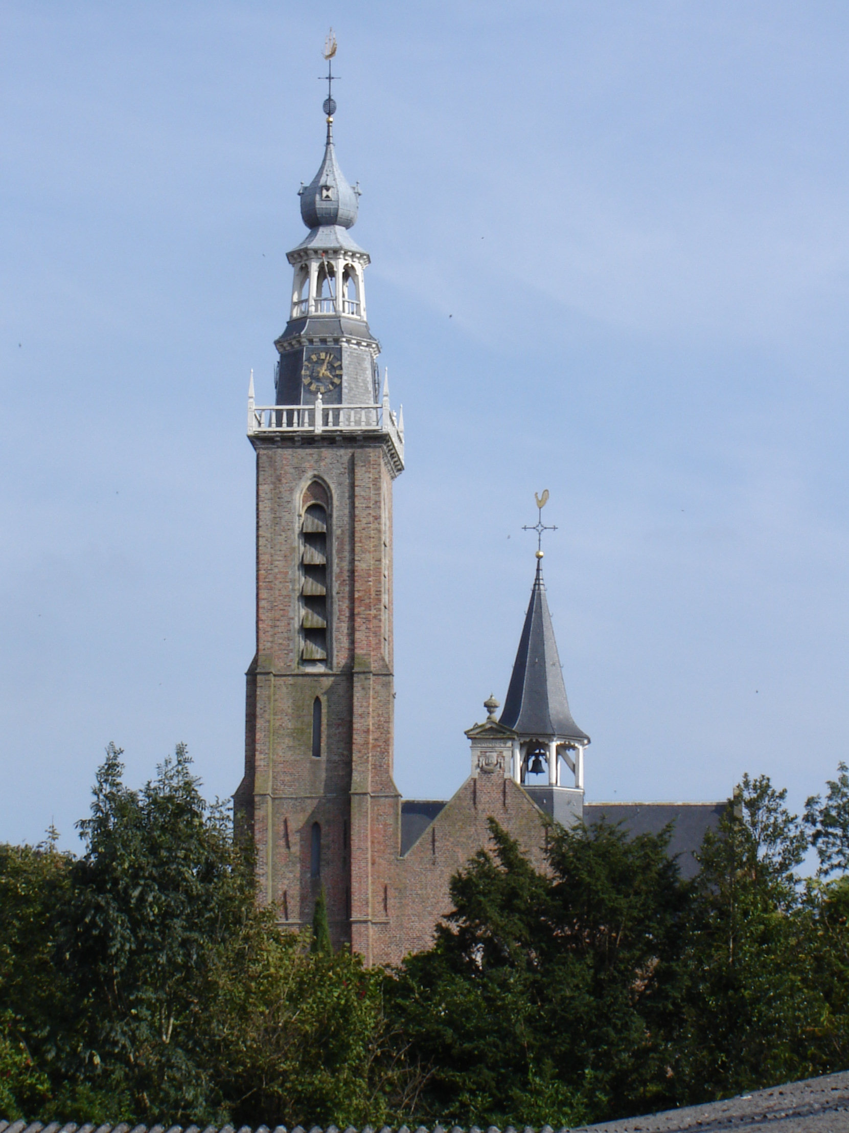 Church of Saint Bavo in Aardenburg. Aardenburg, Sluis, Zeeland, Netherlands